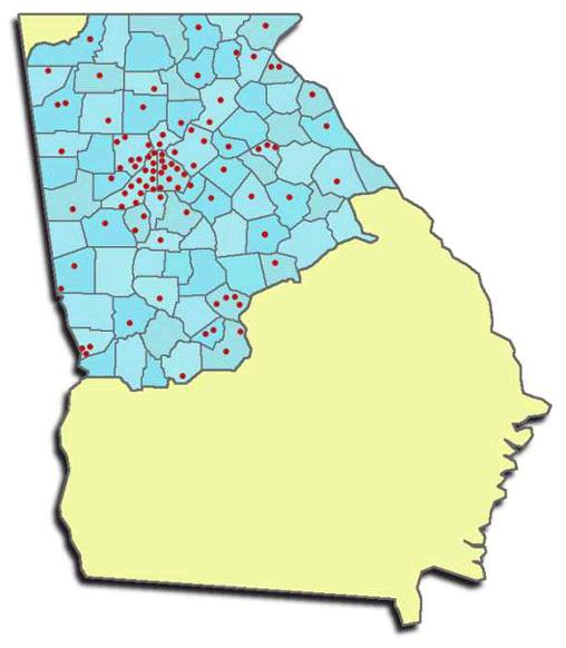 This is a map of the parishes in the Episcopal Diocese of Atlanta